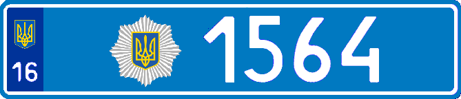 License plates of Ukraine